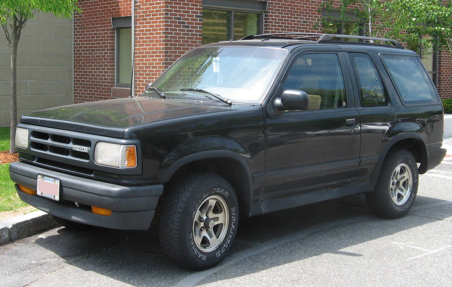 Mazda Navajo photographed in Watertown, Massachusetts, USA.